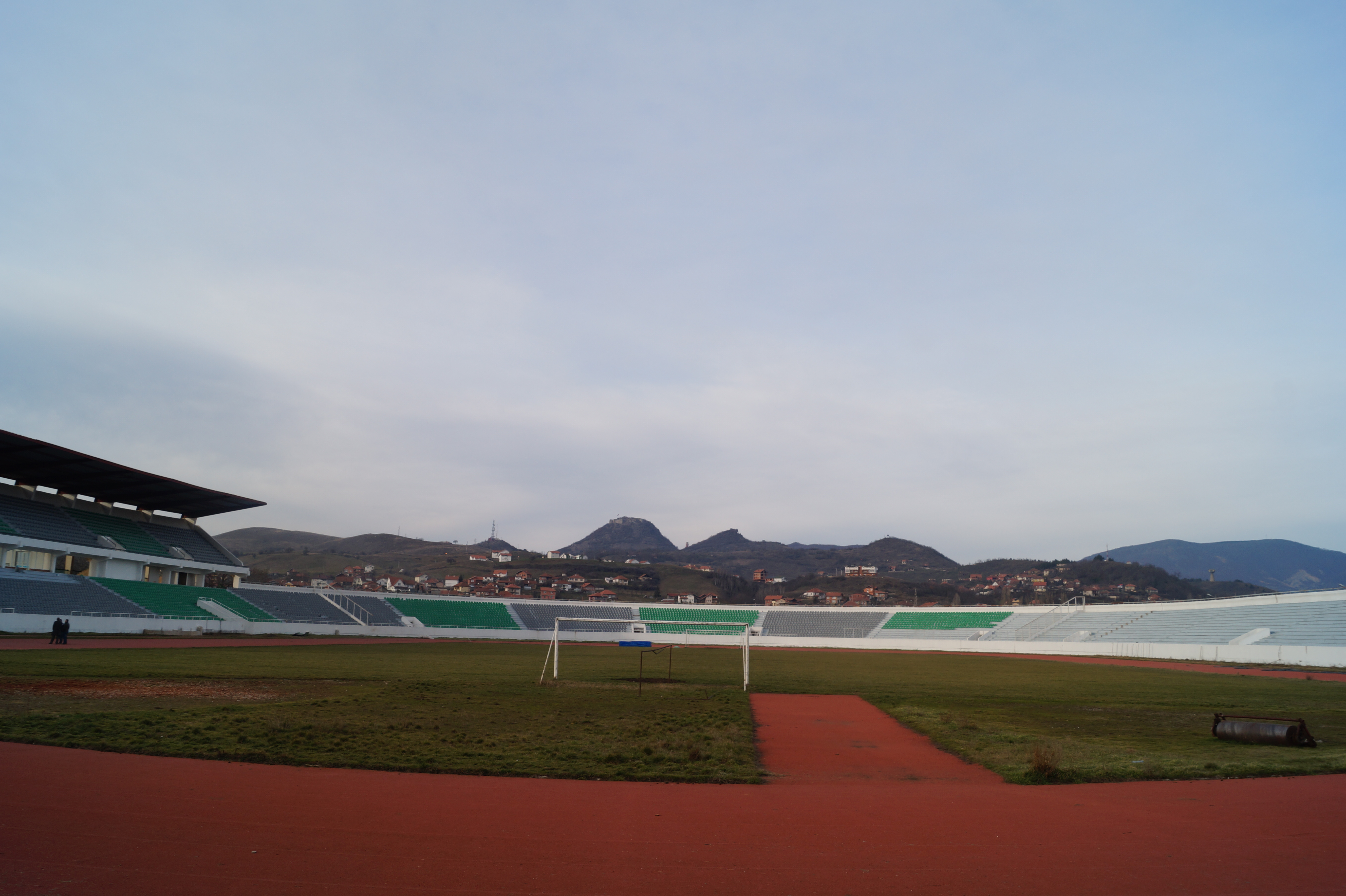 The only Olympic Stadium and the biggest stadium in the country.